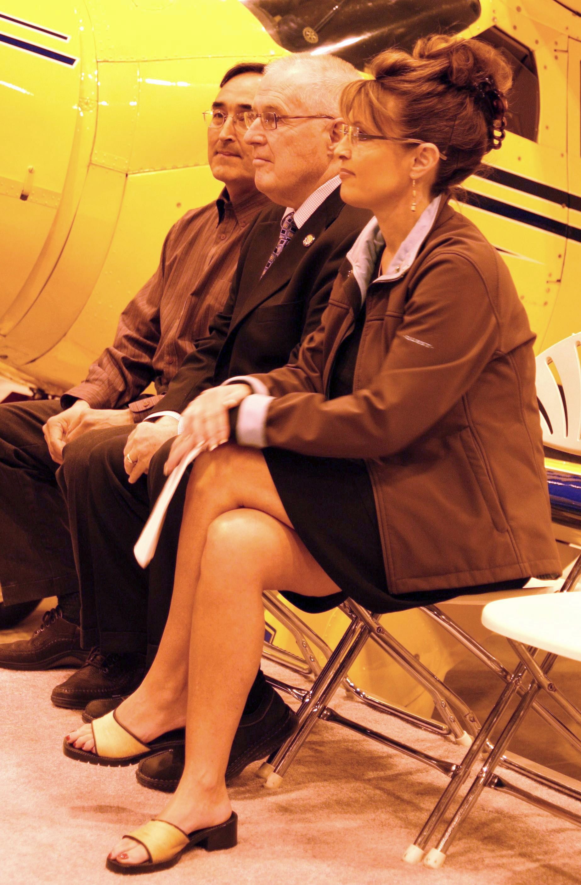 Alaska governor Sarah Palin. Taken at the Alaska Airmen's Trade Show in Anchorage, Alaska in May 2008.